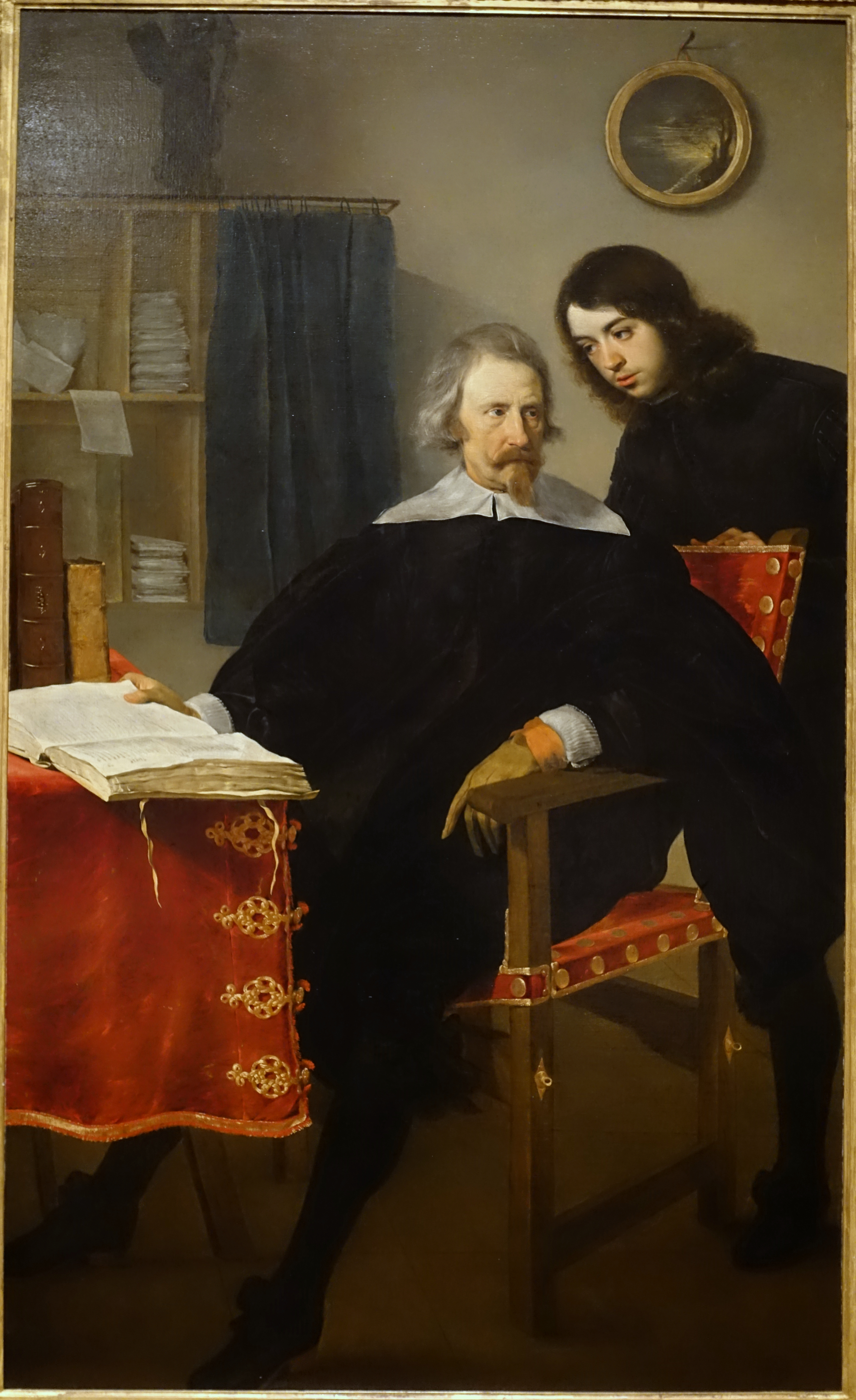 Exhibit in the Meadows Museum - Southern Methodist University, Dallas, Texas, USA.